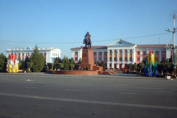 Taraz, Kazakhstan (